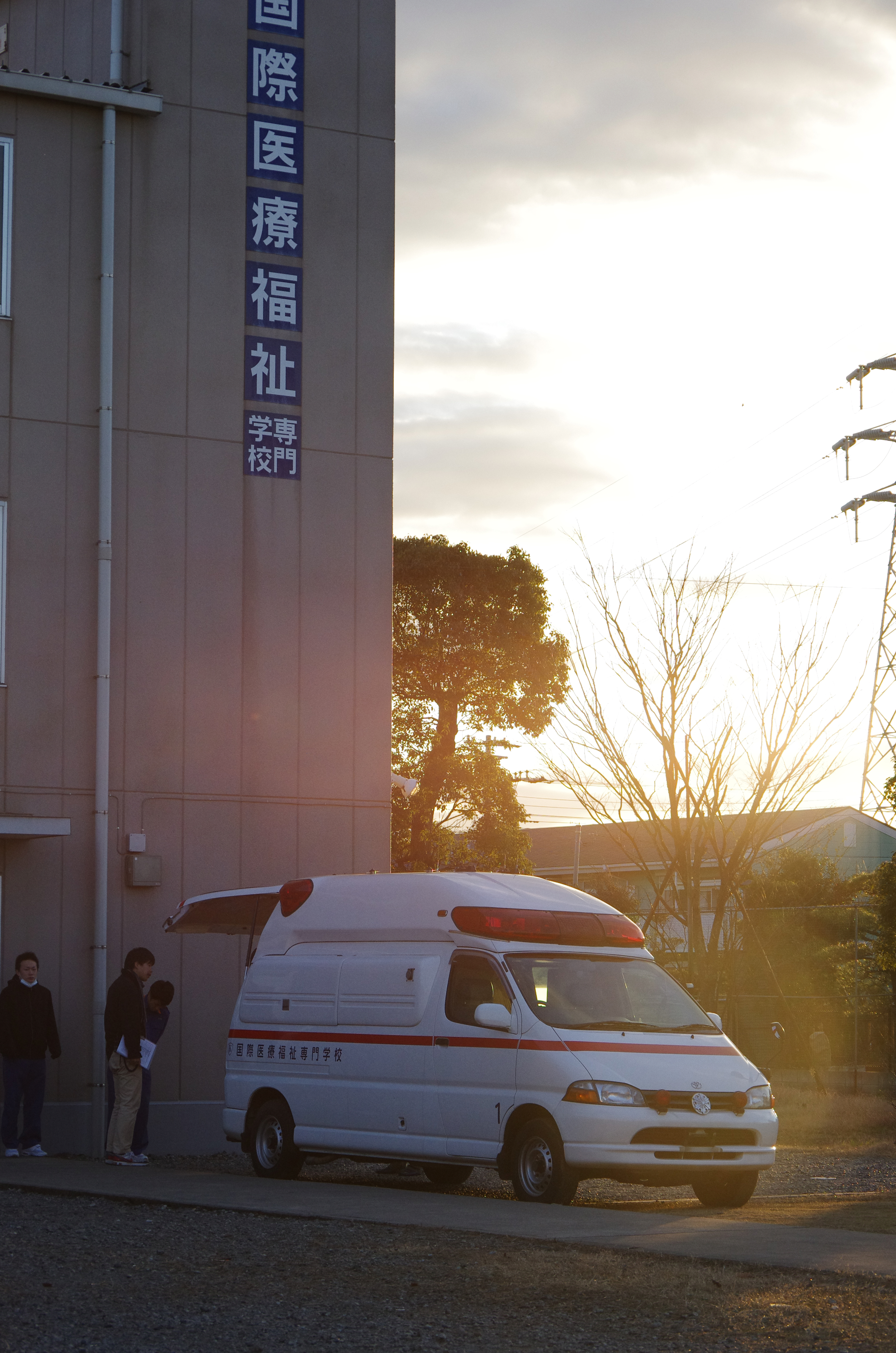 Chiba,Japan.